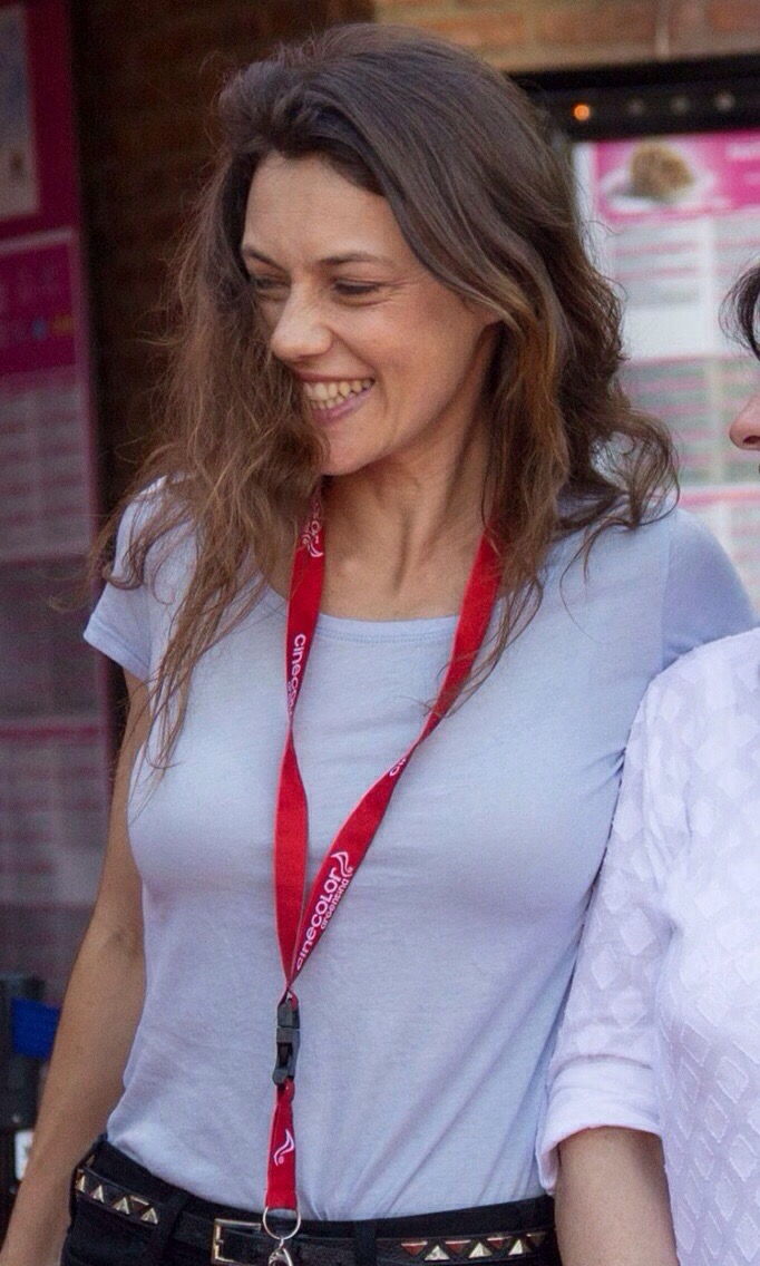 Alexia Moyano at the 2015 Pantalla Pinamar Film Festival